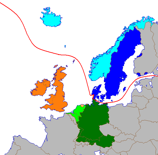 Note: The colours in this map/image represent the linguistic majority(!) in a region. For example. In Northern Germany, Low Saxon dialects (or standard German dialects influenced by Low Saxon that previously were spoken there) are spoken, yet the majority of the people there speak standard German, a high German language, so the area is coloured as being dominantly High German. Summary Rex Germanus Tesi samanunga is edele unde scona 14:20, 13 May 2006 (UTC)